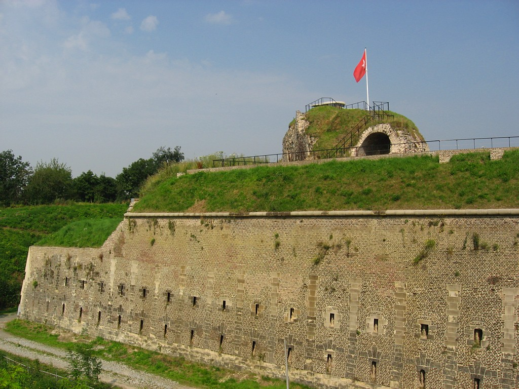 The early 18th-century Fort Sint Pieter - Fortress Saint Peter - in Maastricht. A thorough restoration finished in 2008.